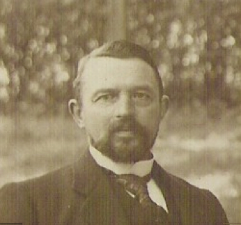 Klaas de Boer around 1920.